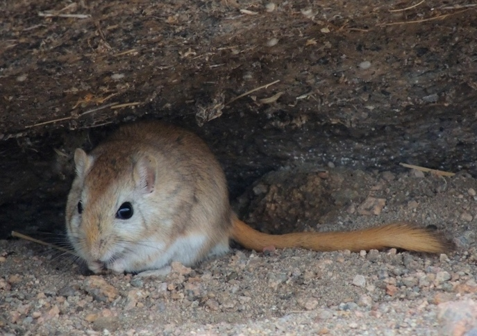 Meriones meridianus in Mongolia